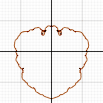 where F(n) is the nth Fibonacci number Graph of sum of sines and cosines (made by me)